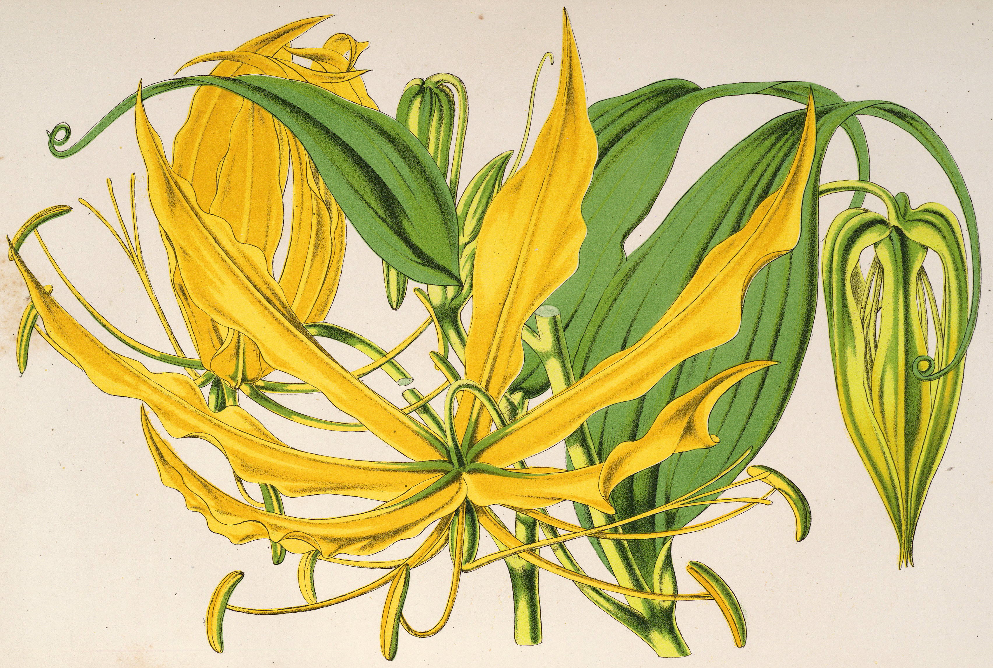 Gloriosa superba L. as Methonica grandiflora